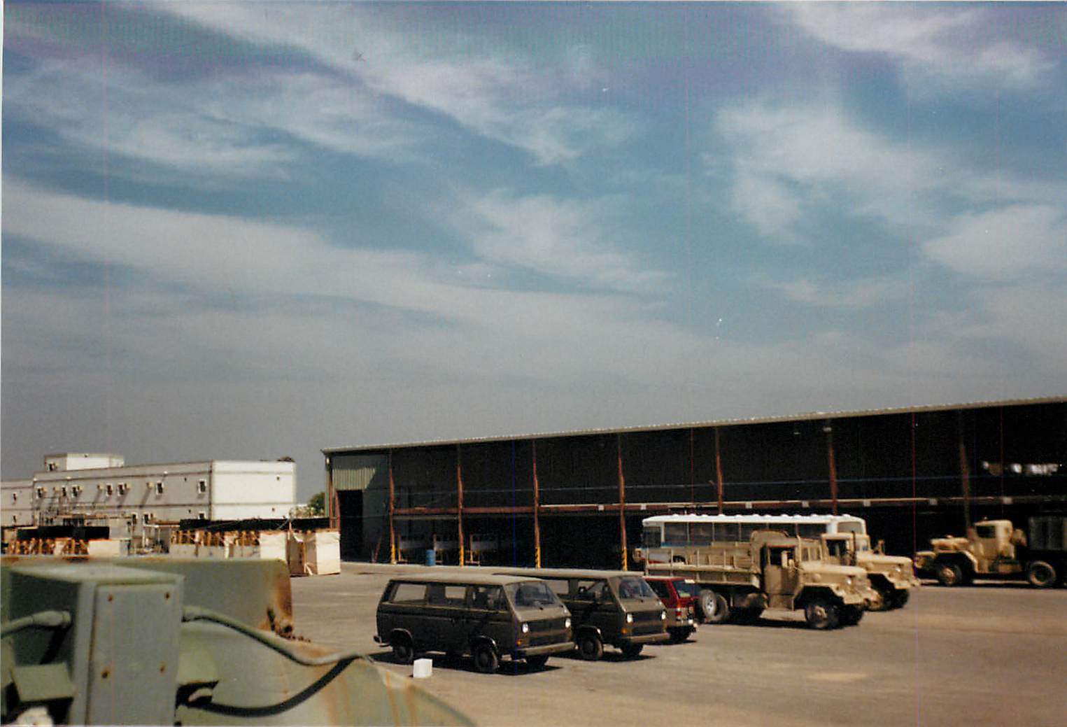 This is an image of the warehouse we stayed in in Dhahran before being deployed to the desert. Almost exactly 1 month later it was destroyed completely by a SCUD missile attack.